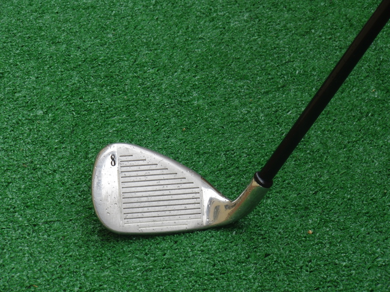 Golf club, Callawax X-20 8 iron - III